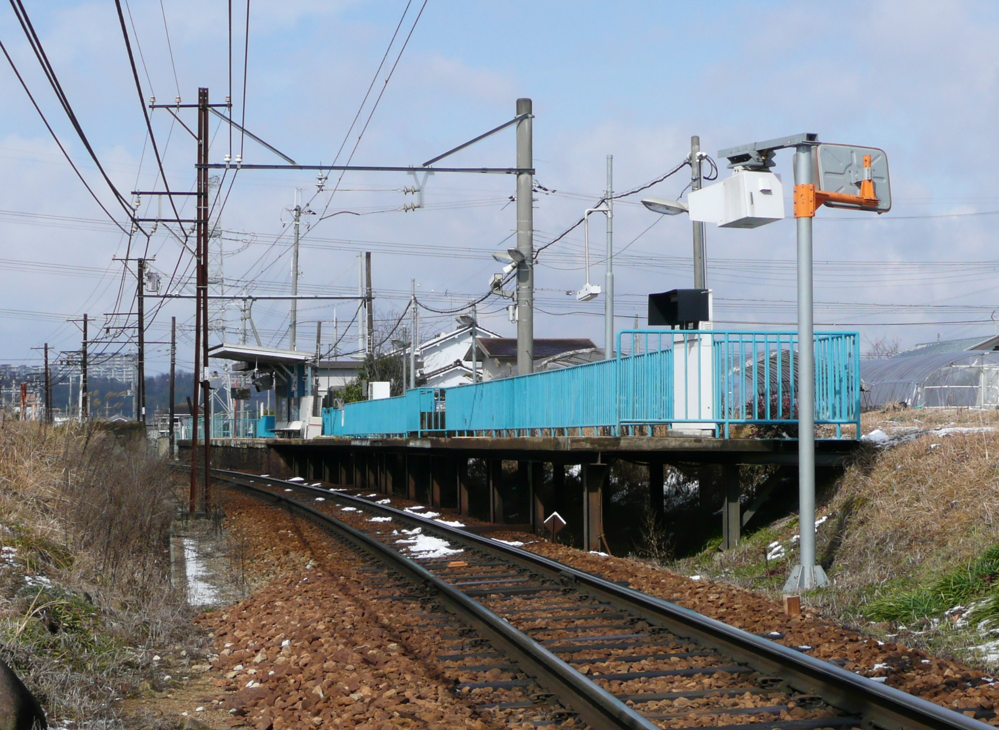 Kobe Electric Railway Niro Station platform